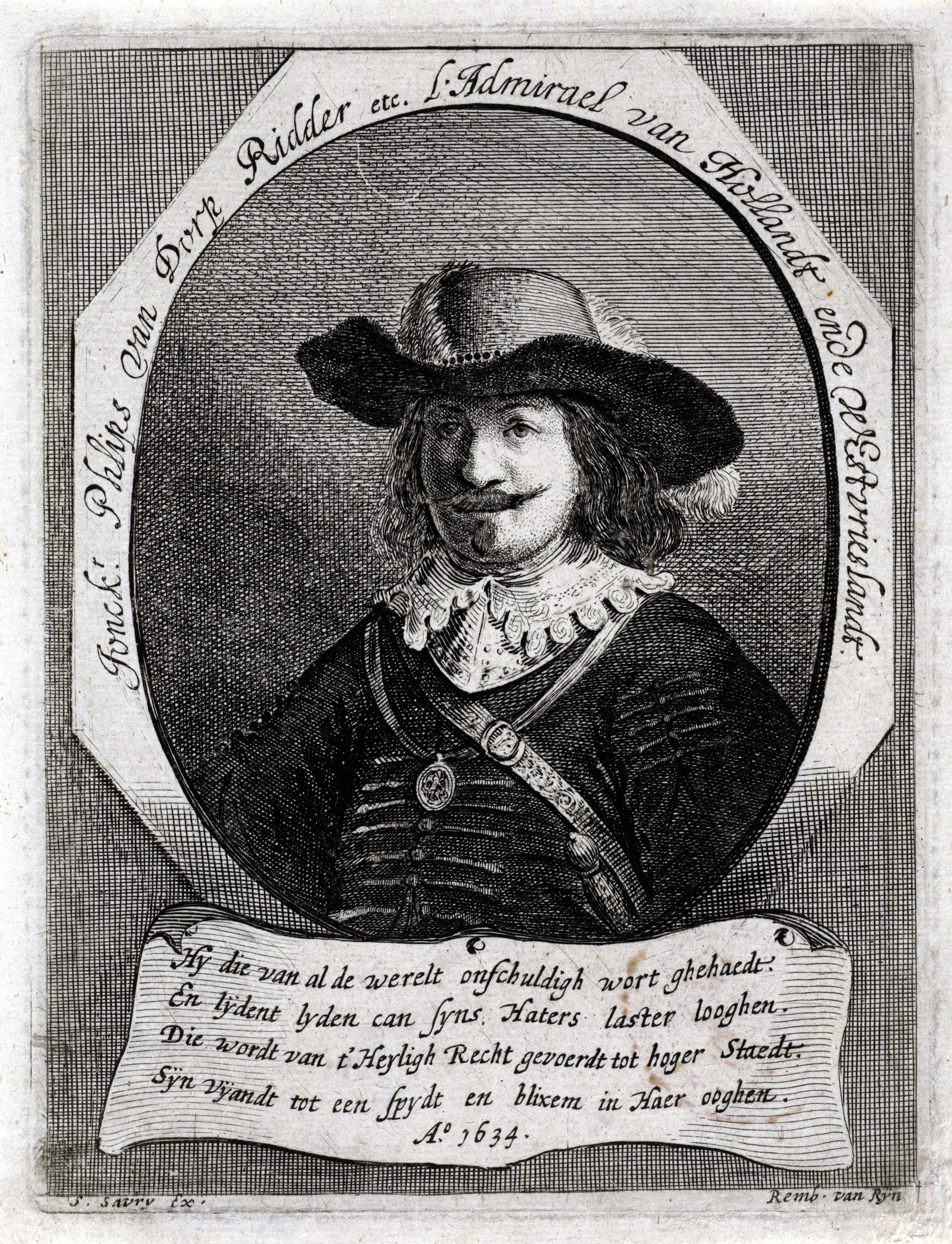 Philips van Dorp (1587-1652), Lord of Dorp, Admiral of the Fleet, son of Lieutenant Colonel Frederik Philipsz van Dorp and Anna Schetz. Print by Salomon Savery, after a painting by Rembrandt van Rijn The banner text reads: Hy die van al de werelt onschuldigh wort gehaedt. En lijdent lyden kan syns Haters laster looghen. Die wordt van t' Heyligh Recht gevoerdt tot hoger Staedt. Sijn Vijandt tot een spijdt en blixem in Haer ooghen. A.o 1634. This translates as: Although innocent he is hated by all the world. Suffering he can bear his Hater's unjustified defamation. Divine Justice brings him to higher Standing. In spite of his Enemy, as lightning in their eyes. Anno 1634.